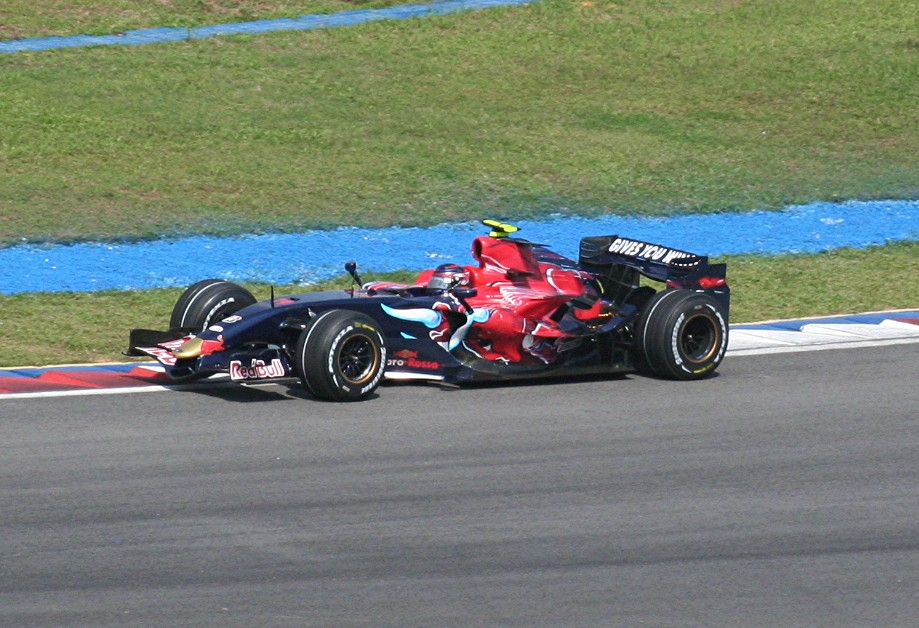 Scott Speed driving for Scuderia Toro Rosso at the 2007 Malaysian Grand Prix.